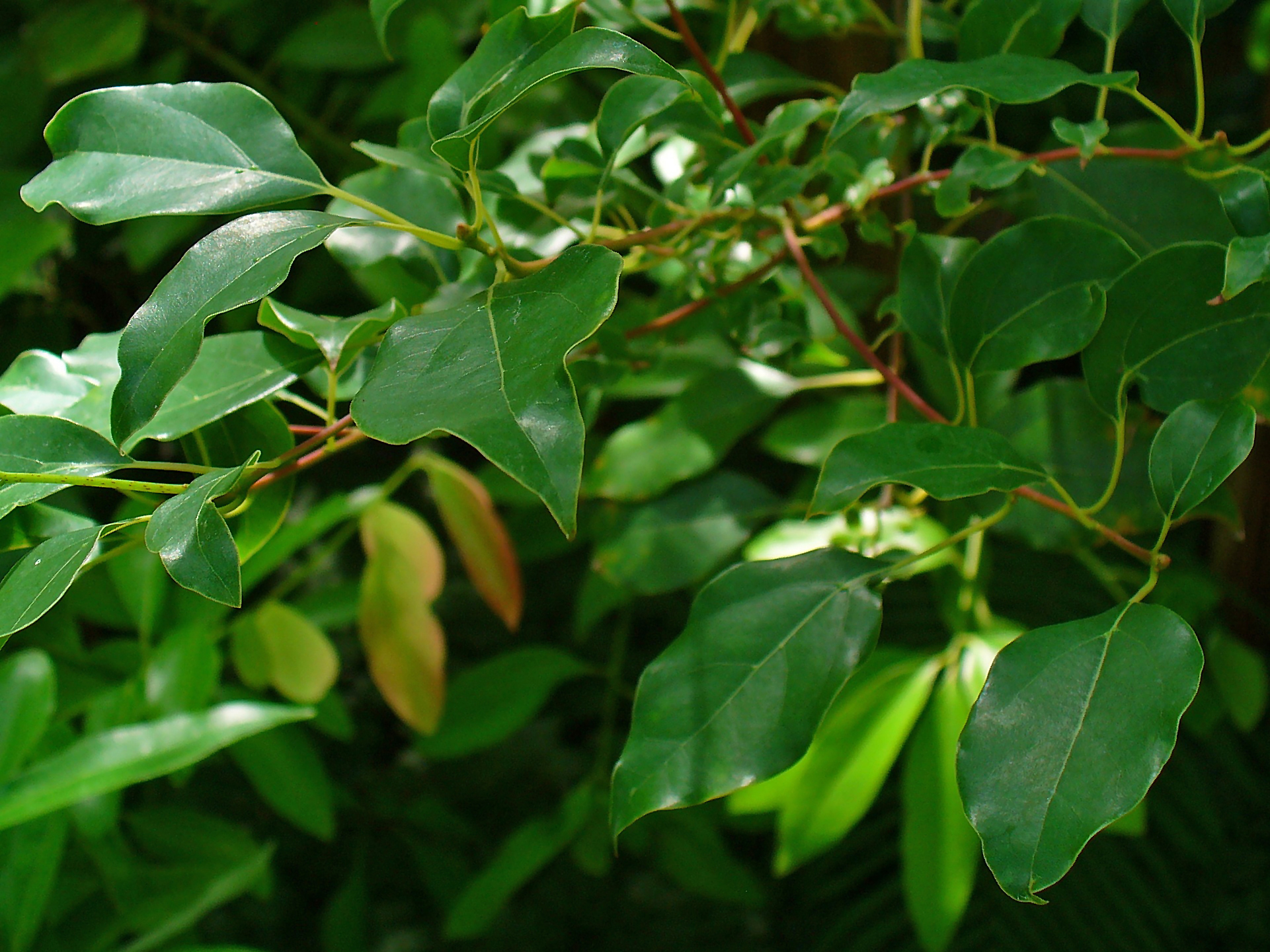 Cinnamomum camphora, Lauraceae, Camphor Tree, Camphorwood, Camphor Laurel, leaves; Botanical Garden KIT, Karlsruhe, Germany. The wood contains the terpenoid camphor, which is used in homeopathy as remedy: Camphora (Camph.)